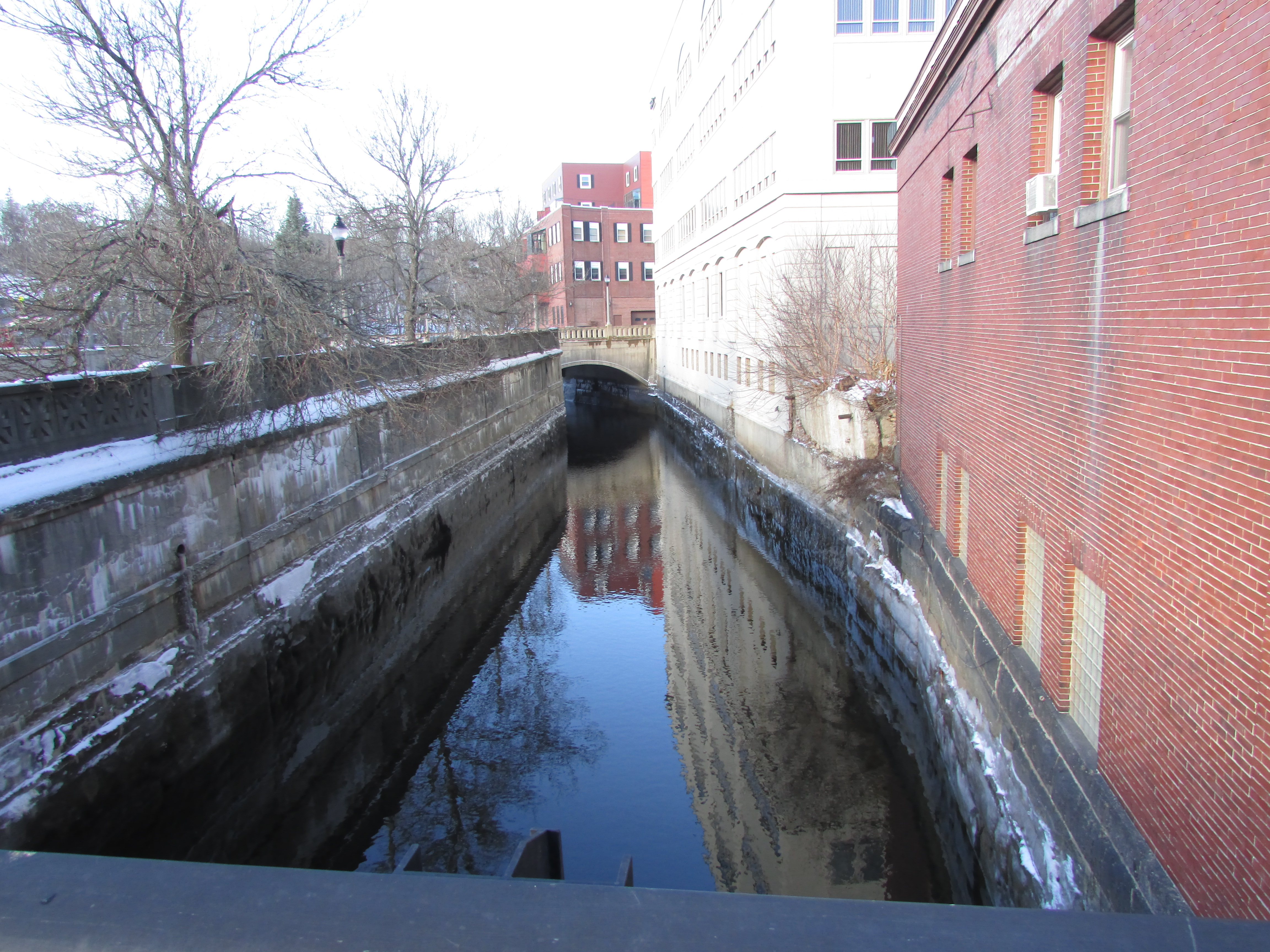 View of the Kenduskeag Stream from Norumbega Parkway. Norumbega Parkway is a park along the Kenduskeag Stream in downtown Bangor, Maine. It features several displays of historical significance.